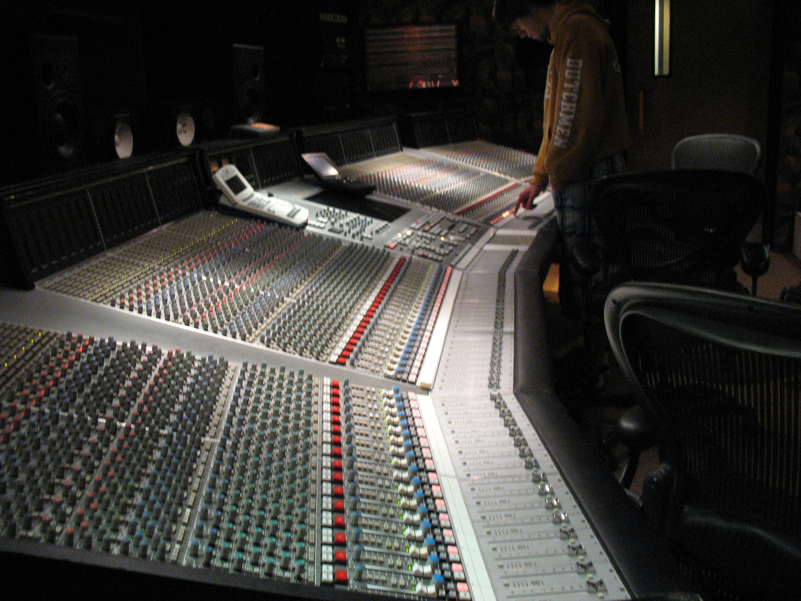 The SSL9000J being operated from the opposite side